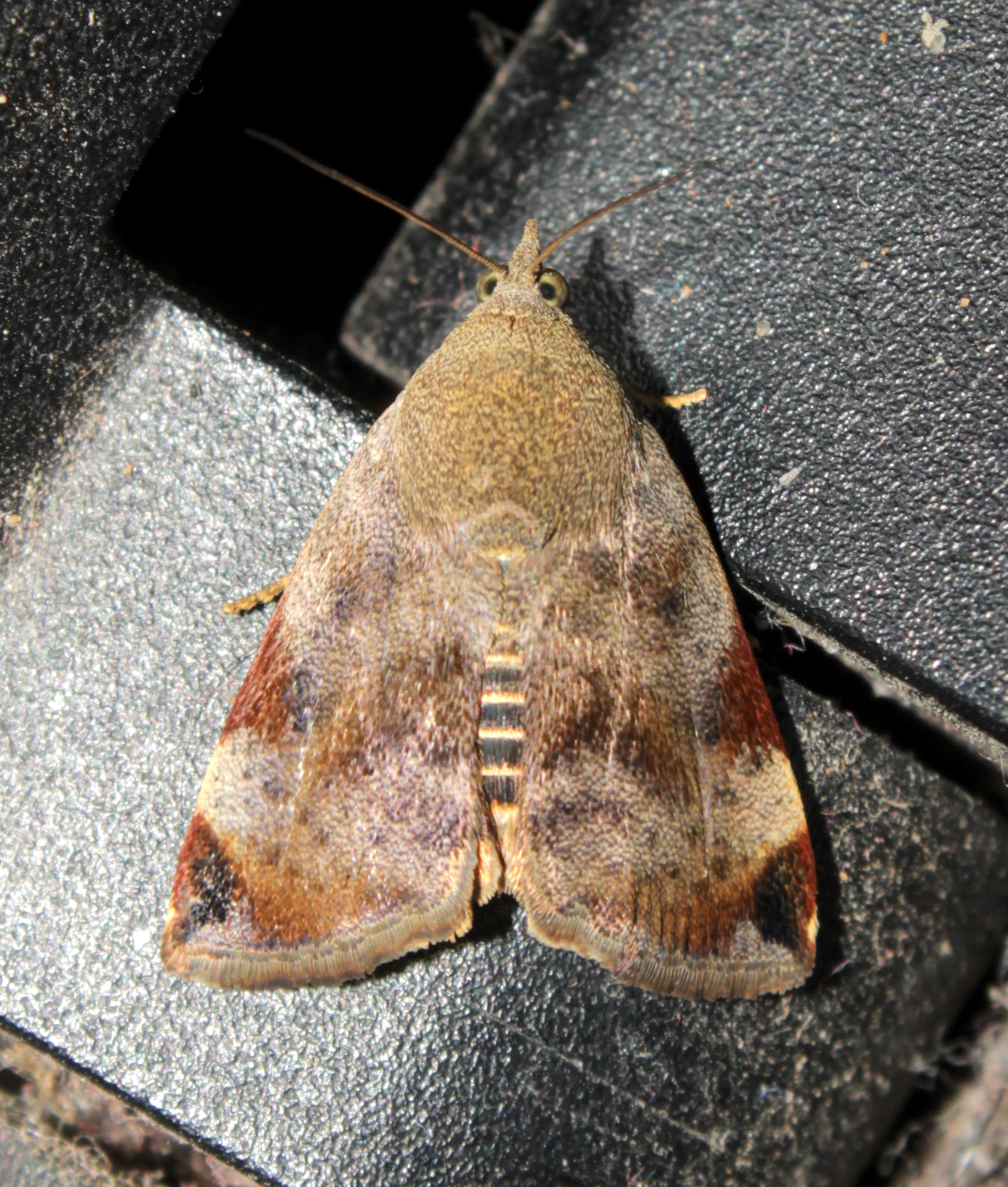 A Teak defoliator moth (Hyblaea puera). Photographed near Kanjirappally, Kerala